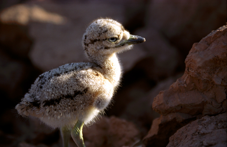 Eurasian Stone-curlew chick (Burhinus oedicnemus). Taken at the Ruhama Badlands ( near Ruhama), Israel.